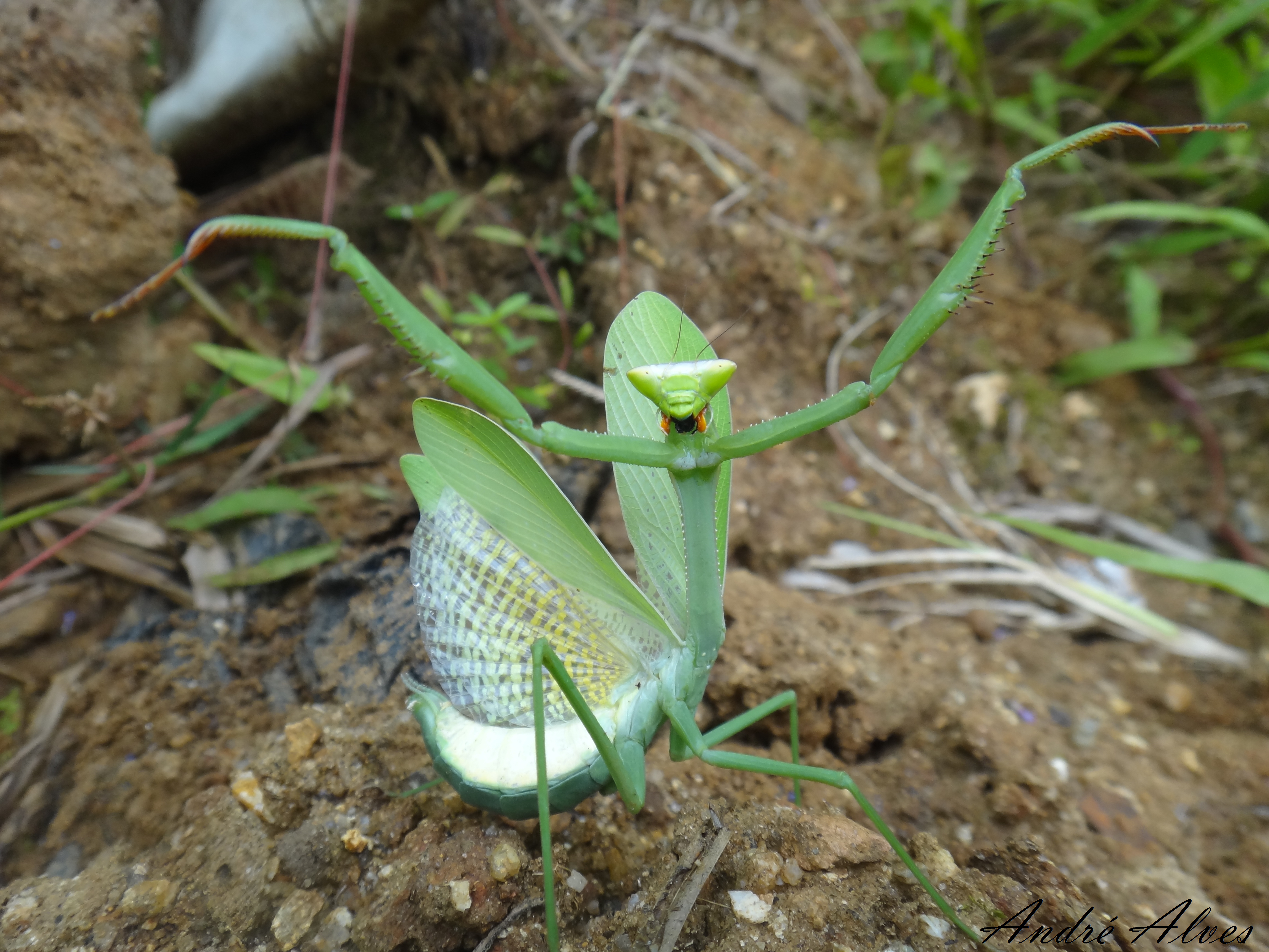 This is a picture of a praying mantis in defense position.